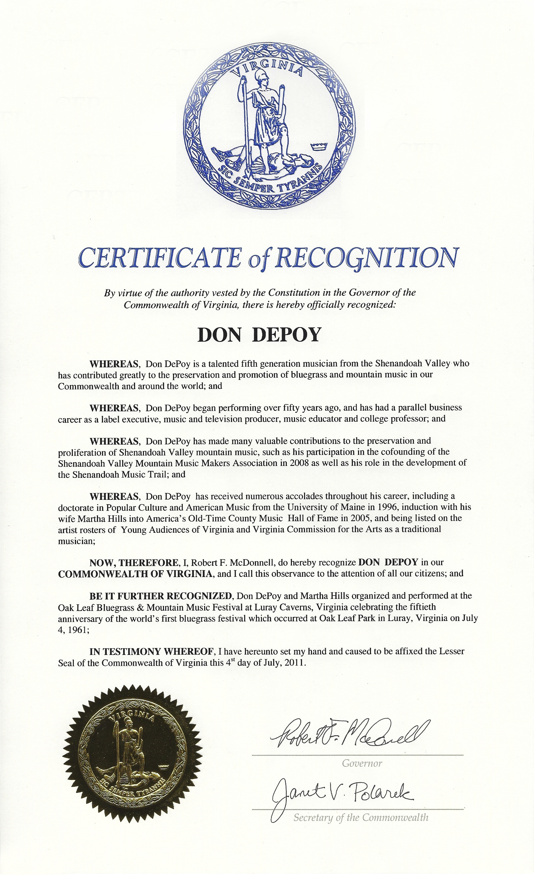 Certificate of Recognition from Governor of the Commonwealth of Virginia, Bob McDonnell, to Donald DePoy on July 4, 2011.